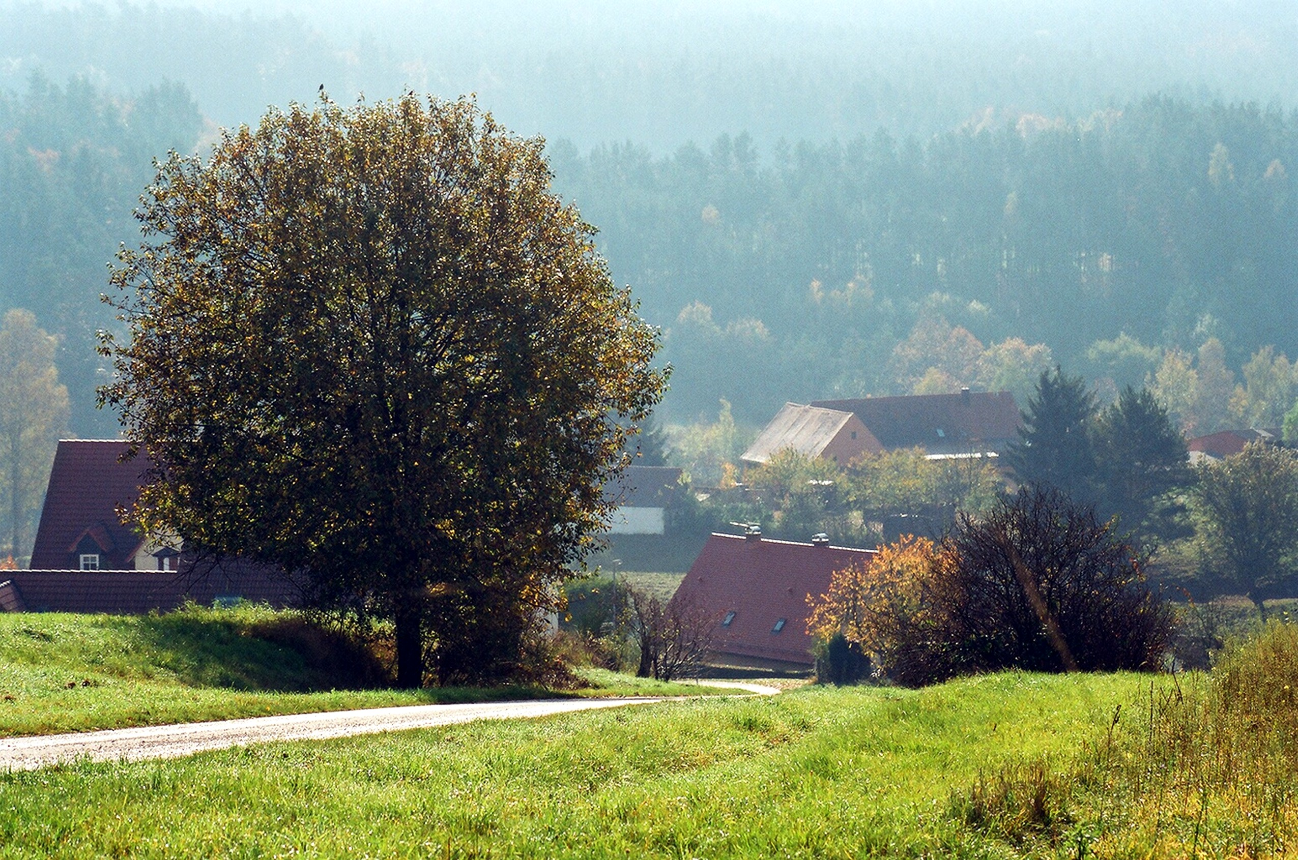 Obererlbach (Haundorf), the Juchhöhweg